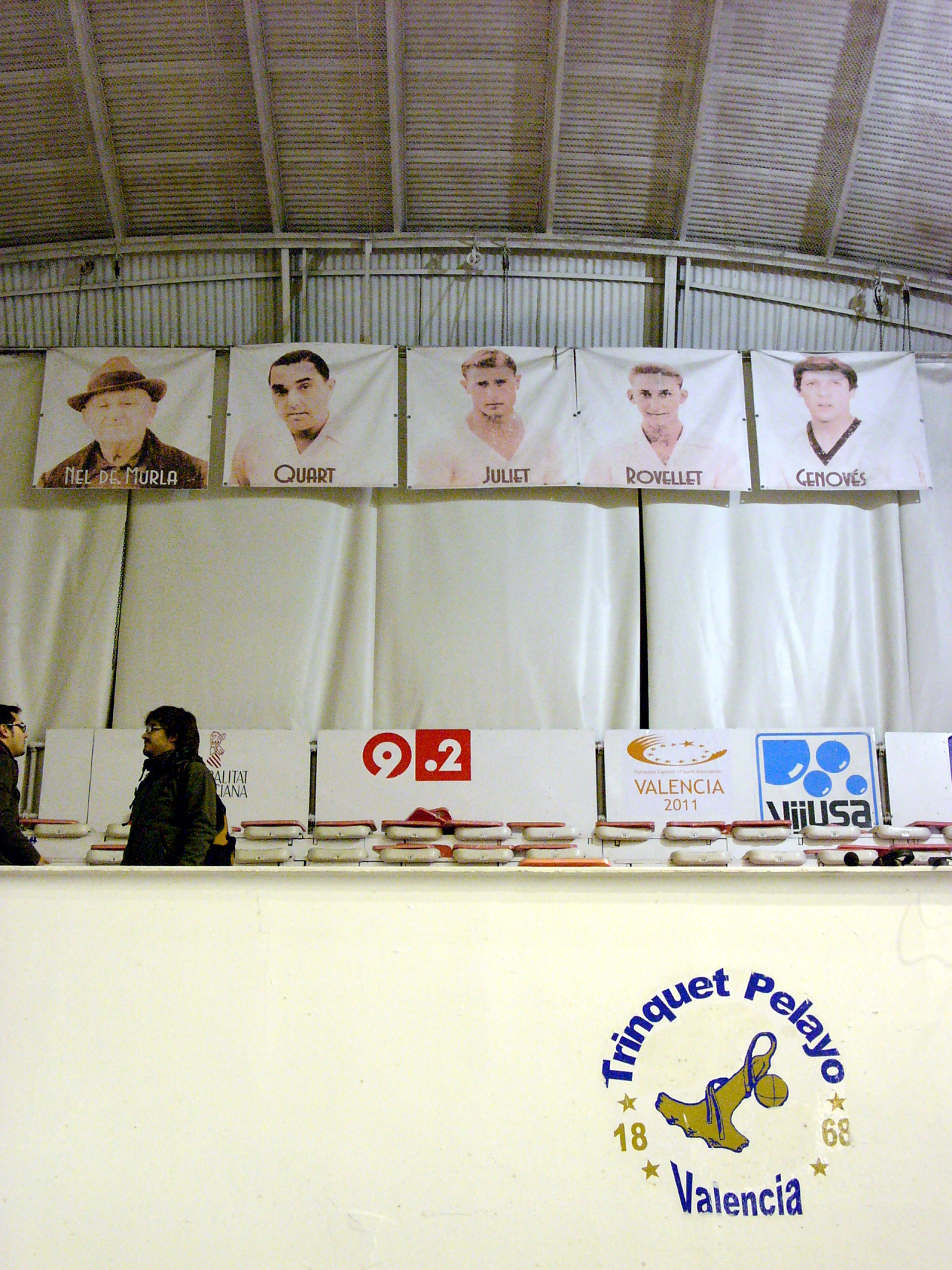 Honor gallery in Valencia's trinquet depicting five of the 20th century's best pilotaris: Nel de Murla, Quart, Juliet, Rovellet and Genovés